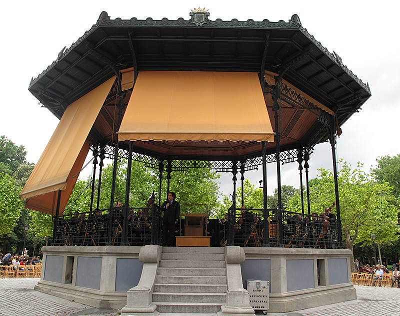 Banda Sinfonica Municipal Madrid at the concert at Buen Retiro Park